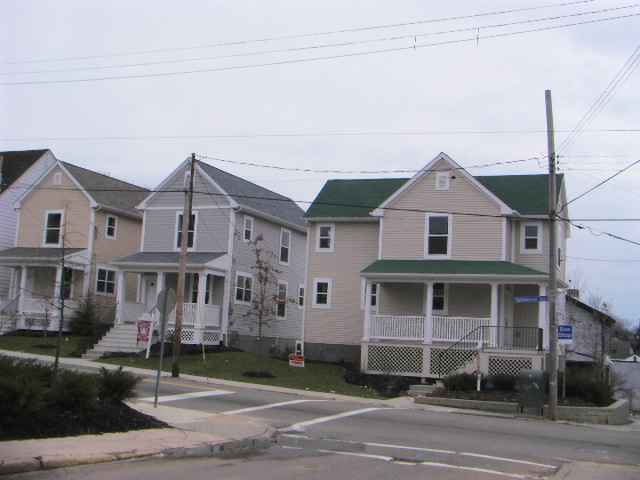 PixOnTrax